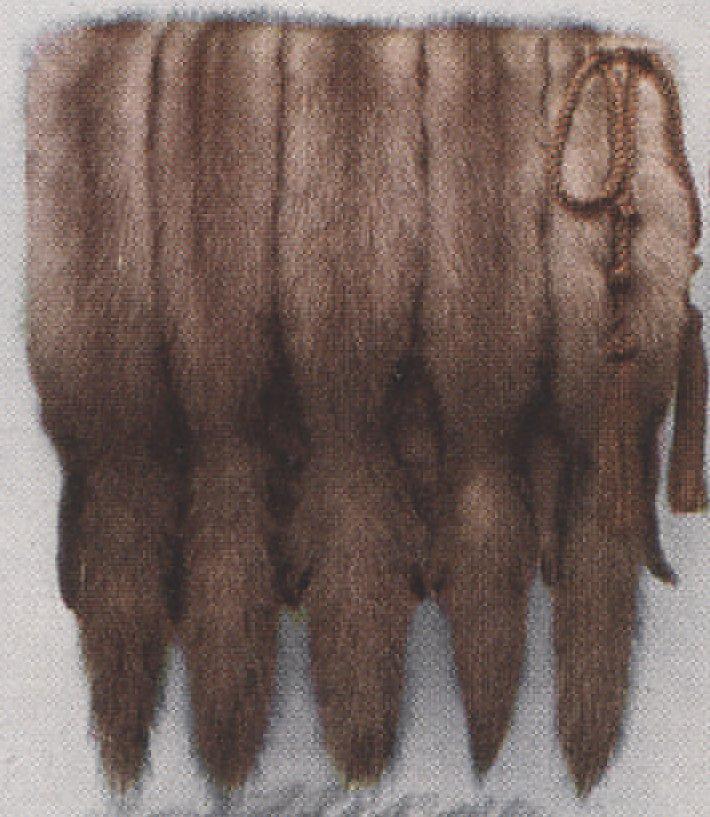 Albrecht's Fur Facts & Fashion 1912-13, Saint Paul, Minnesota. Cut. Stone Marten, Naturell, extra large ... $ 110.00 128.00 146.00.